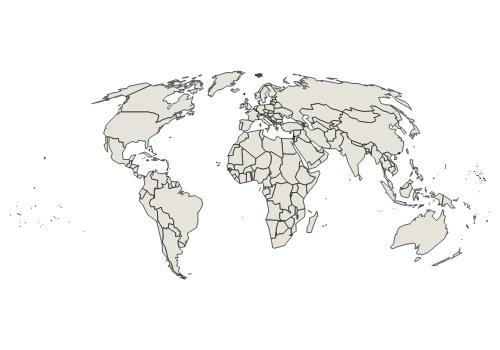 world map with Mollweide projection